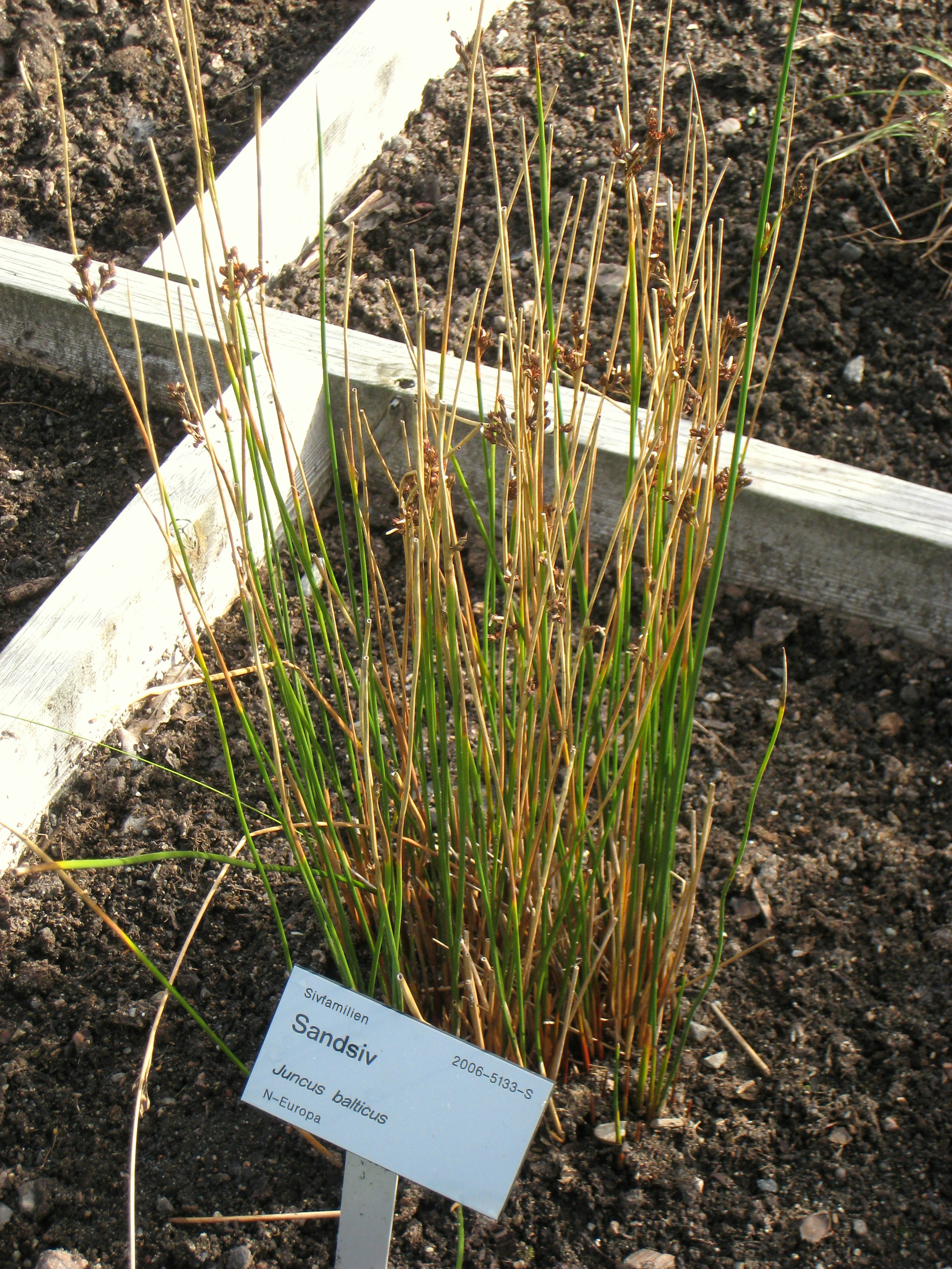 Juncus balticus - Oslo botanical garden, Oslo, Norway.